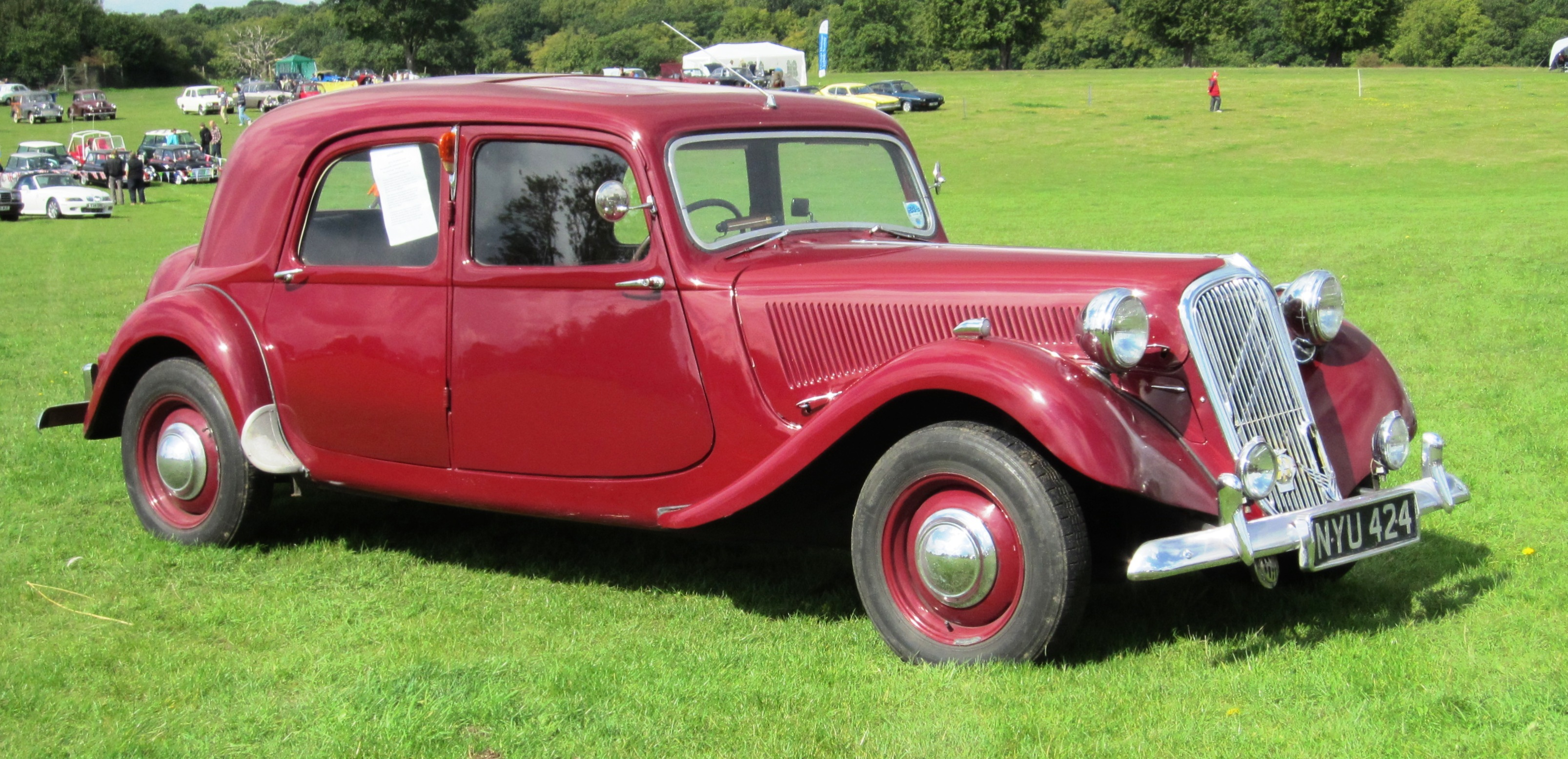 Citroen 15-6 built in Berkshire so not black